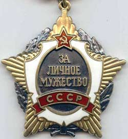 Soviet Order For Personal Courages